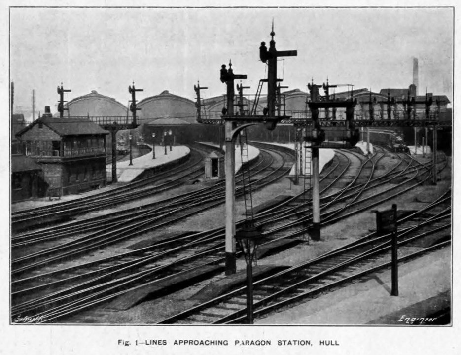 Hull Paragon station c.1908 from west from The Engineer 11 Feb 1908